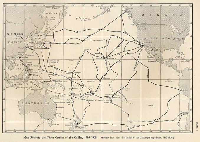 Map showing the three cruises undertaken by the Galilee while under charter to the Department of Terrestrial Magnetism. The track of the Challenger expedition 1872-1876 is also shown as a dashed line